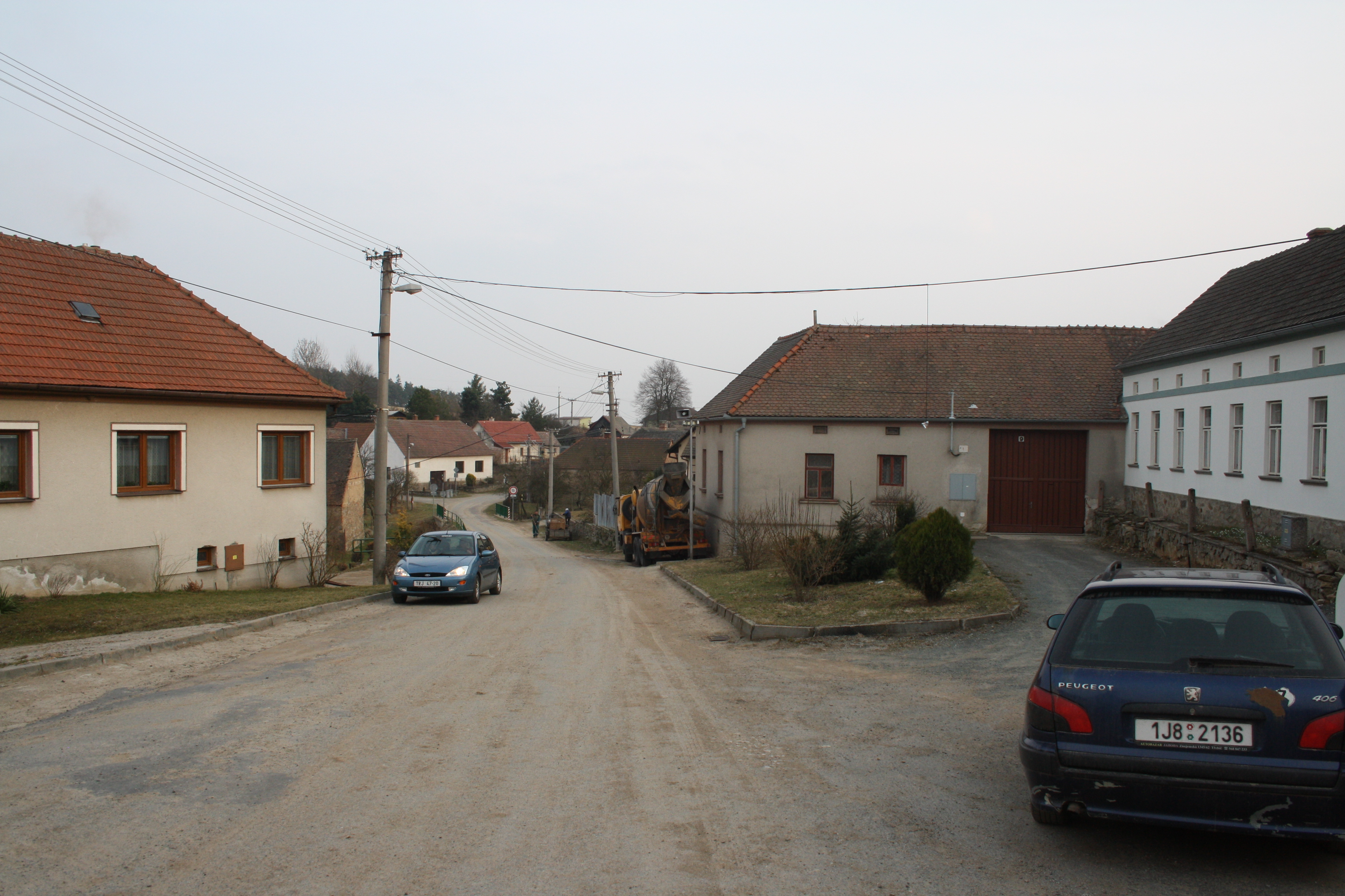 Center of Plešice.